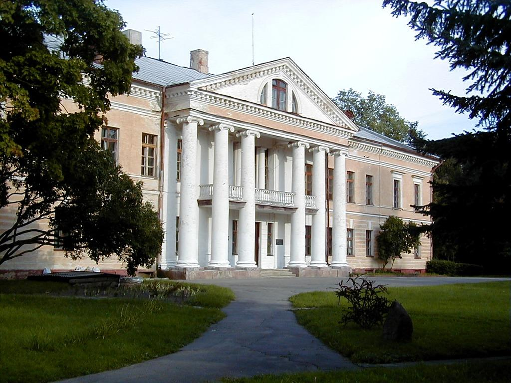 Svitene Manor